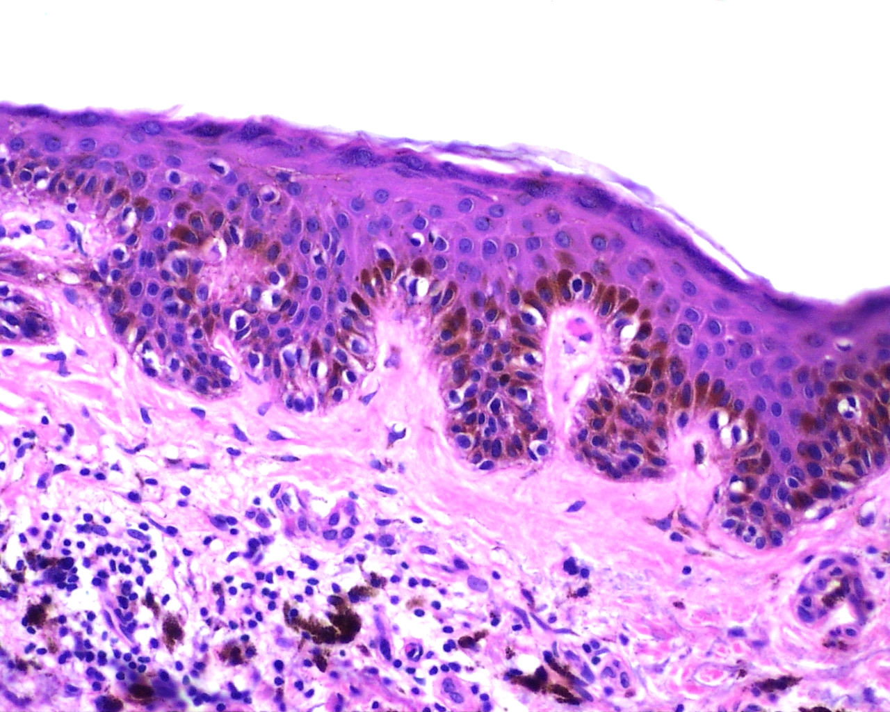 Lentigo simplex or simple lentigo or lentiginous melanocytic naevus